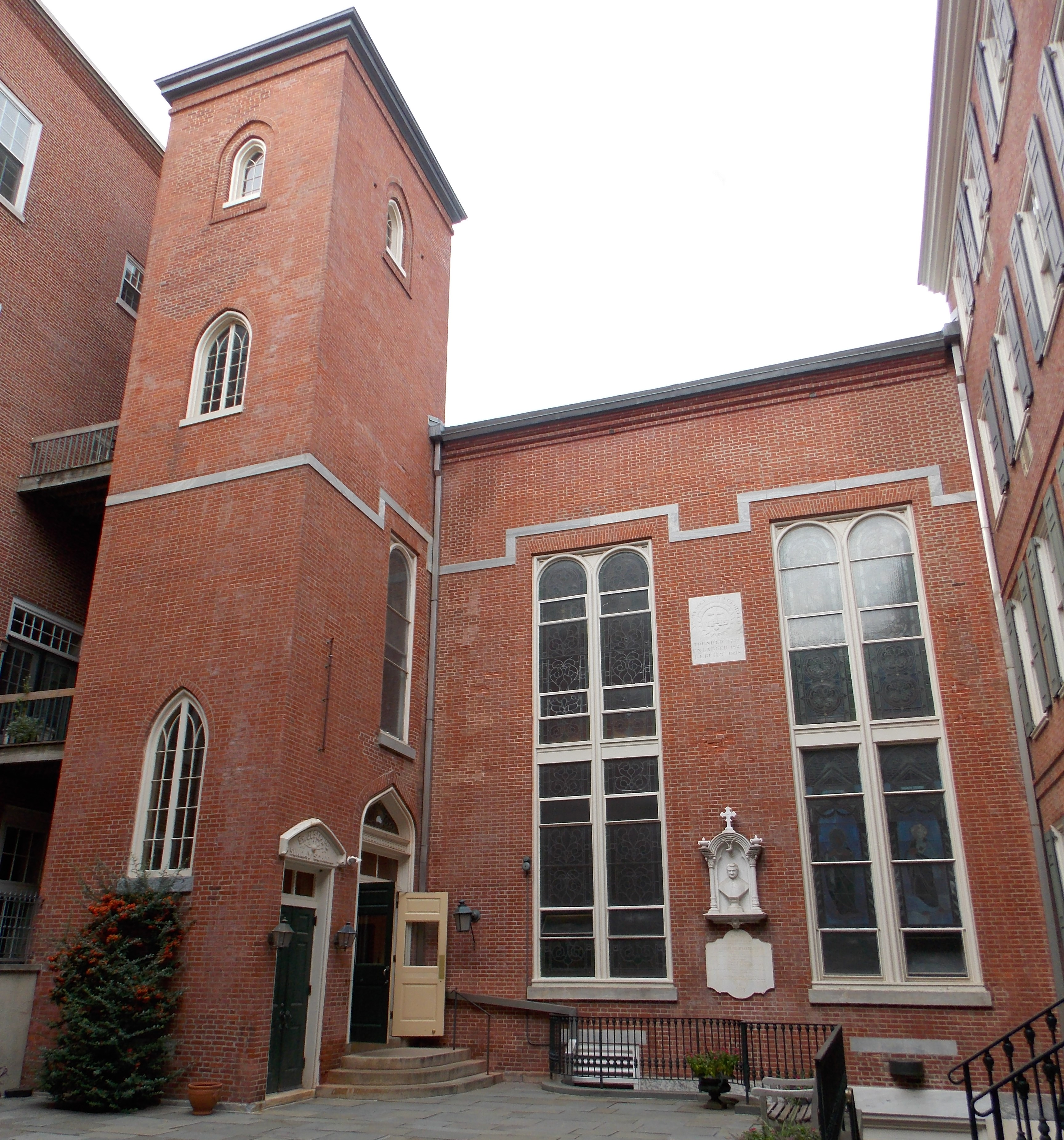 Old St. Joseph's Church in the Society Hill neighborhood of Philadelphia, Pennsylvania.